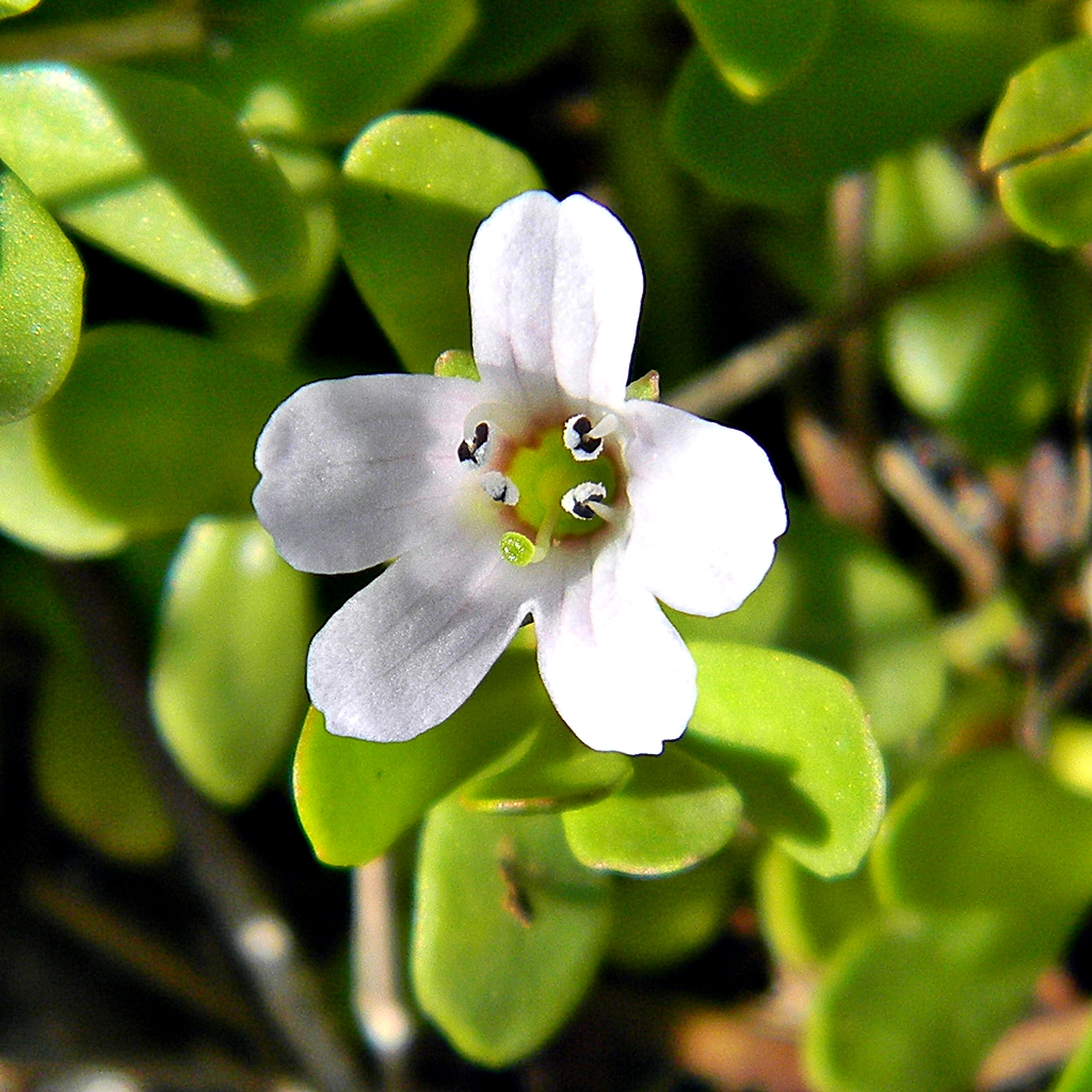 The diminutive water hyssop (Bacopa monnieri) also called Herb-of-grace & Brahmi, blooming in a low moist area (normally a small pond) at Juno Dunes Natural Area. This herb is used medicinally around the world, especially in Ayurvedic medicine. It is mildly psychoactive and reputed to improve mental clarity, focus and mood.The flower above is approx. 8-10mm, the leaves about 8mm. Enter the realm of mosquito & gnat, armed with a magnifying glass, and take a look at these useful little gems!